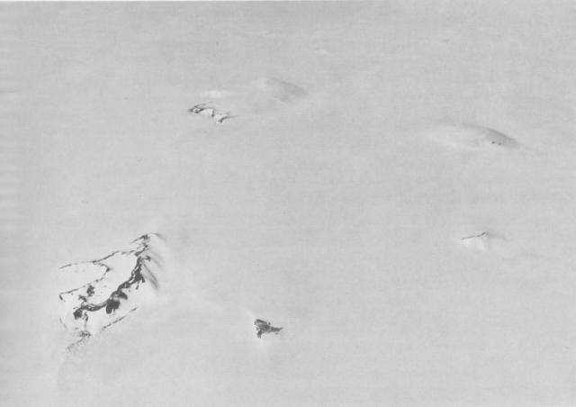 Hudson Mountains from Space U. S. Navy photo TMA 2035 F31 203.